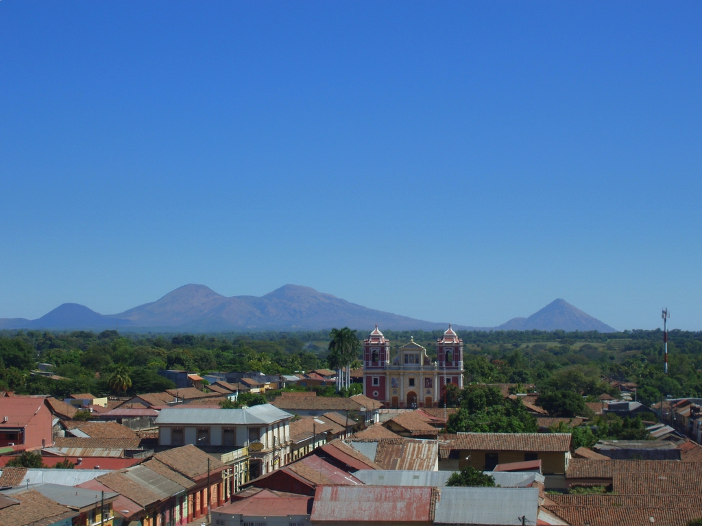 View of León, Nicaragua